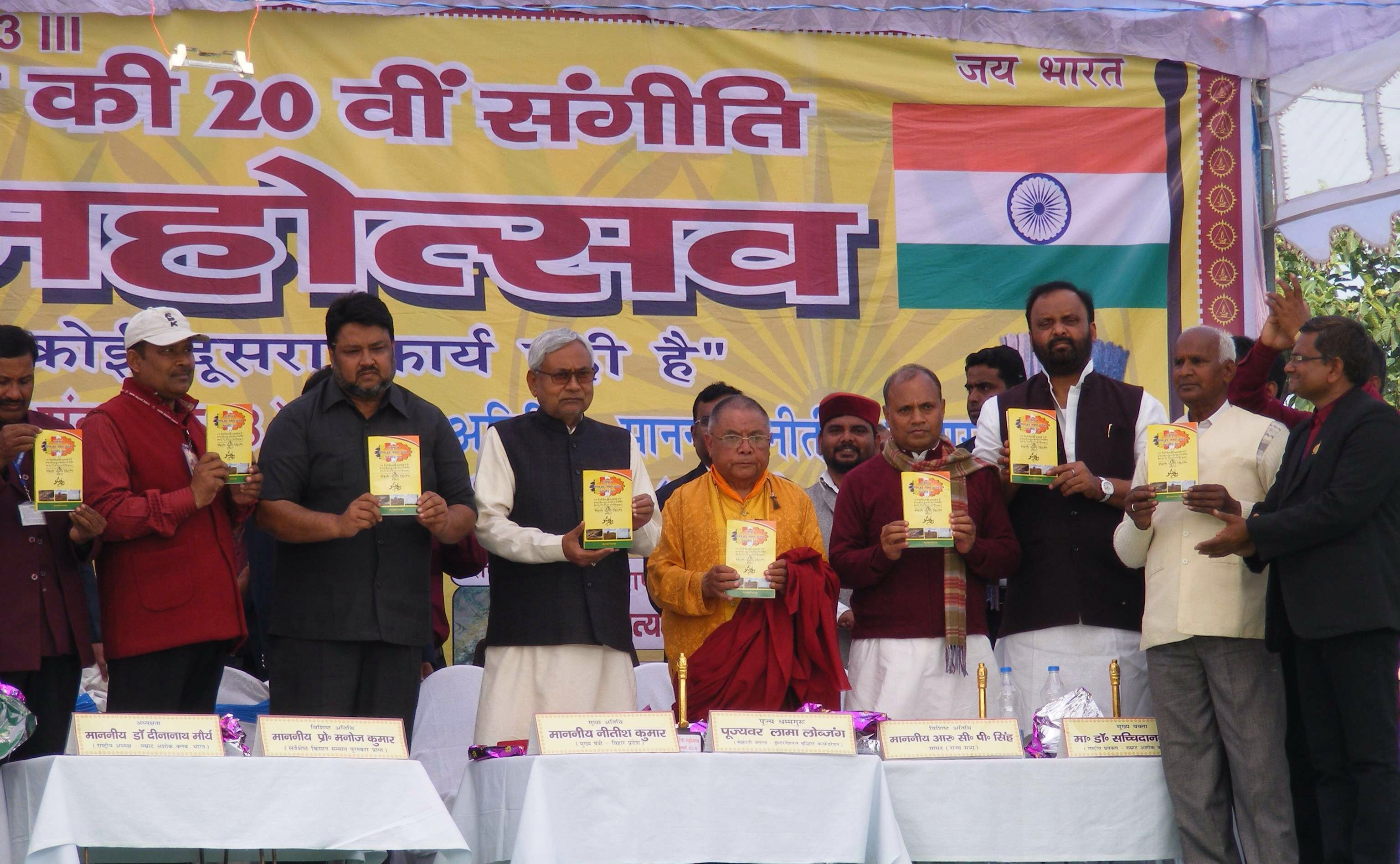 Obaidur Rahman's book released in Latiya Mahotsav by CM of Bihar Mr Nitish Kumar